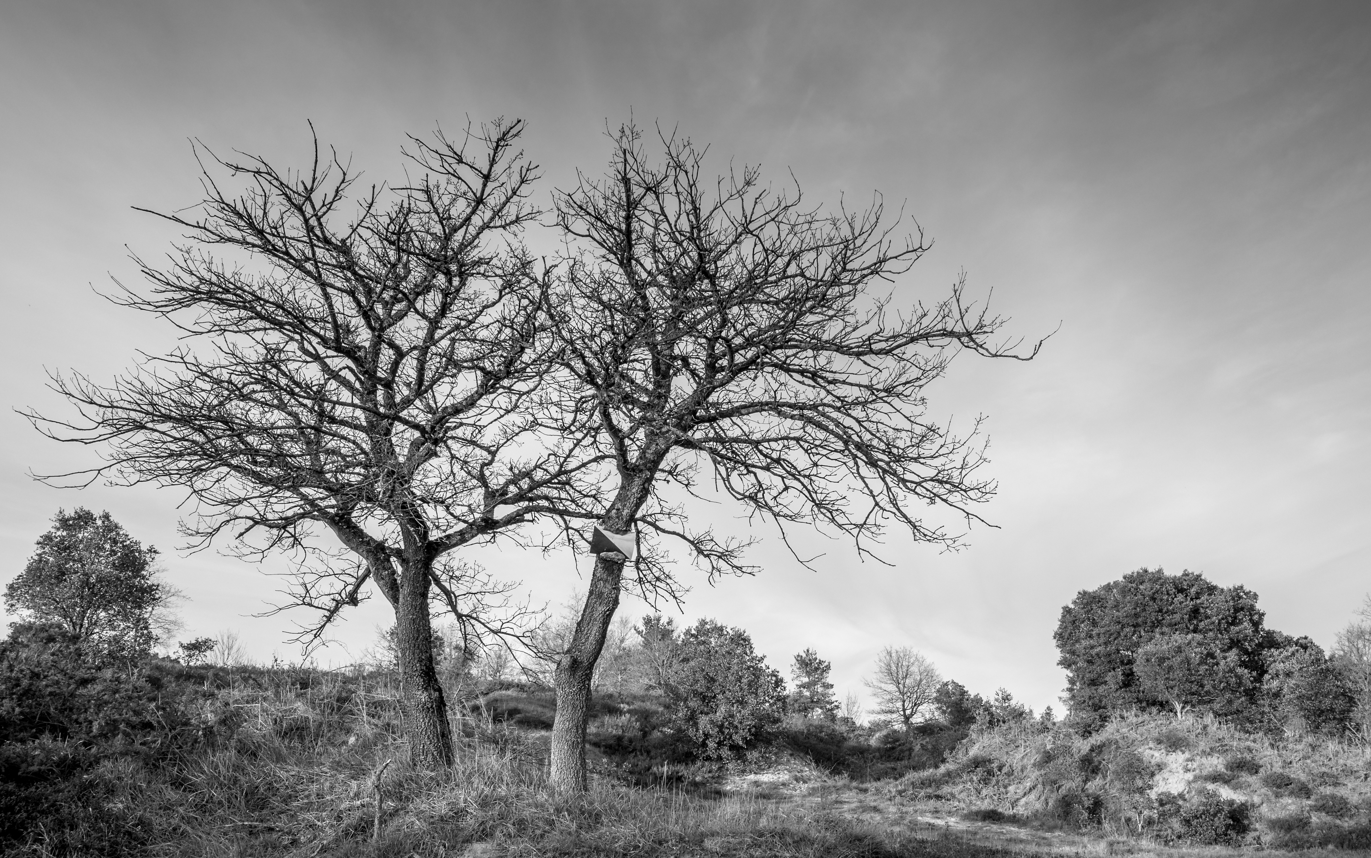 Two Portuguese oaks (Quercus faginea) near the former Vitoria mountain pass. Álava, Basque Country, Spain